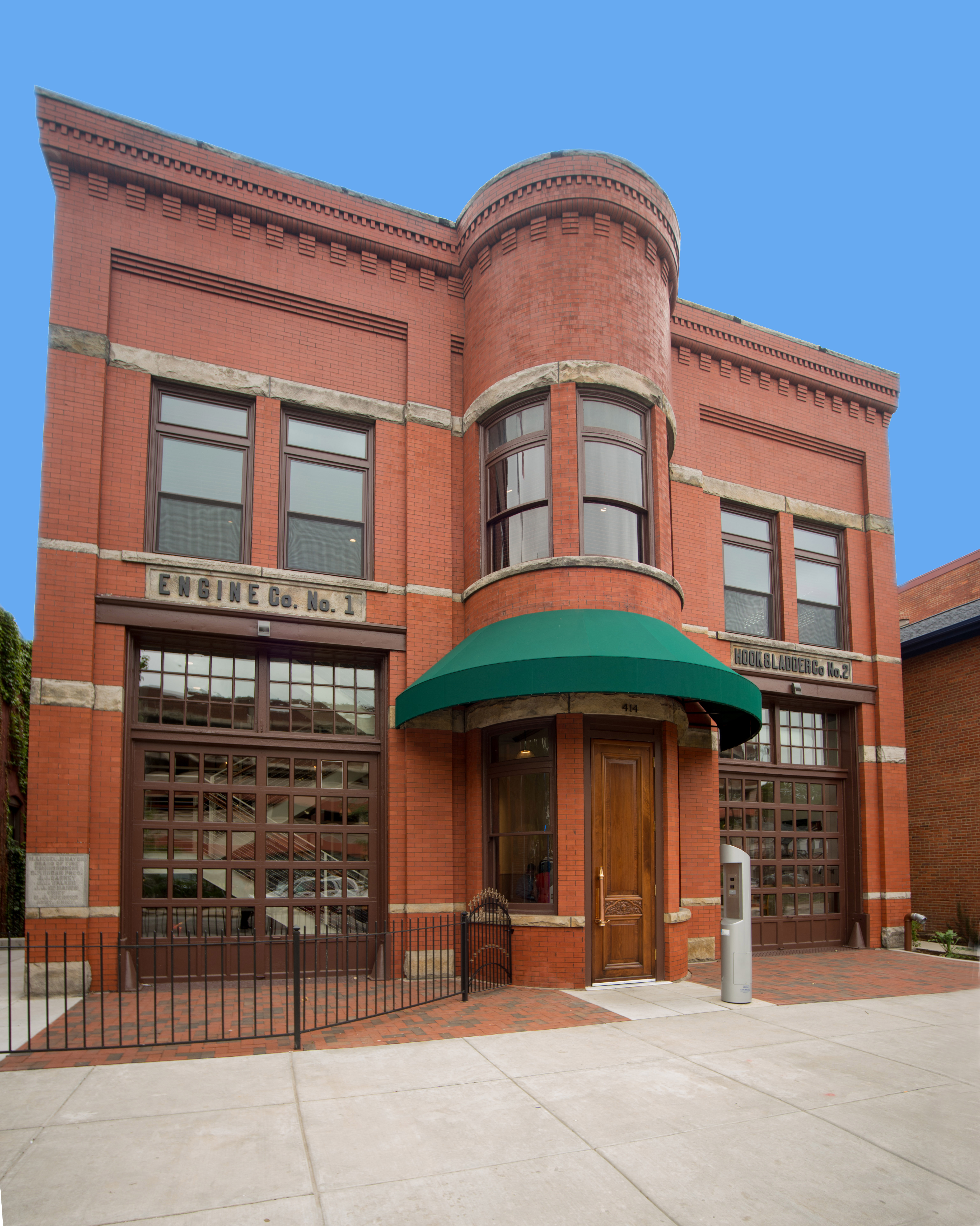 Formerly the Erie firehouse and then Pufferbelly restaurant in Erie, Pa, renovated and restored by Erie Insurance